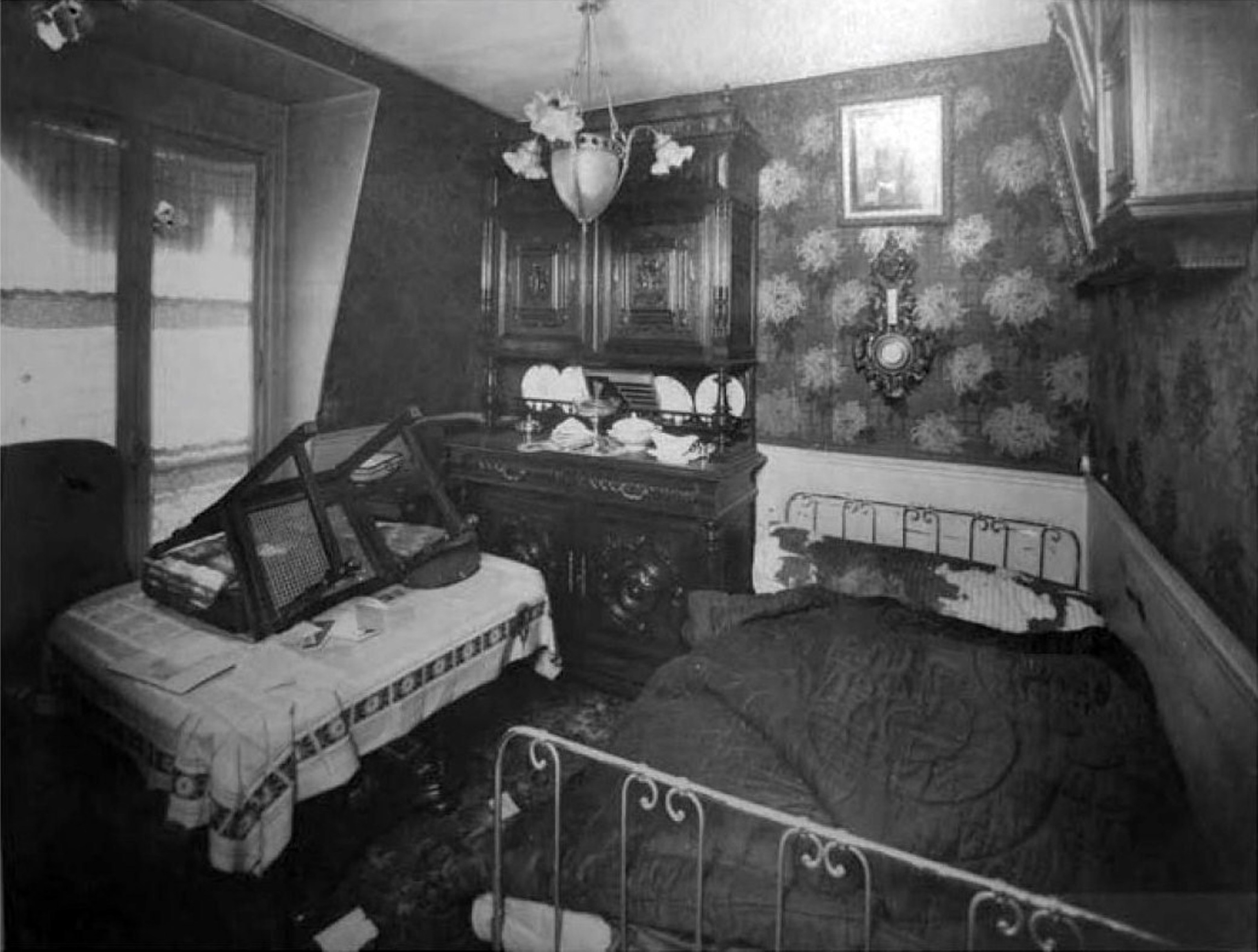 Paris Archives, Seine Department, legal proceedings, Violette Nozière file. Odds D2 U8 379-380. Crime scene, night from Tuesday 22 to Wednesday 23 August 1933. Voluntary homicide and attempted at 9 rue de Madagascar, 6th floor, 12th arrondissement of Paris. Minutes of the police : « The dining room, traces of blood on the bolster, the sheet of the bed, on the wall, on the floor ».